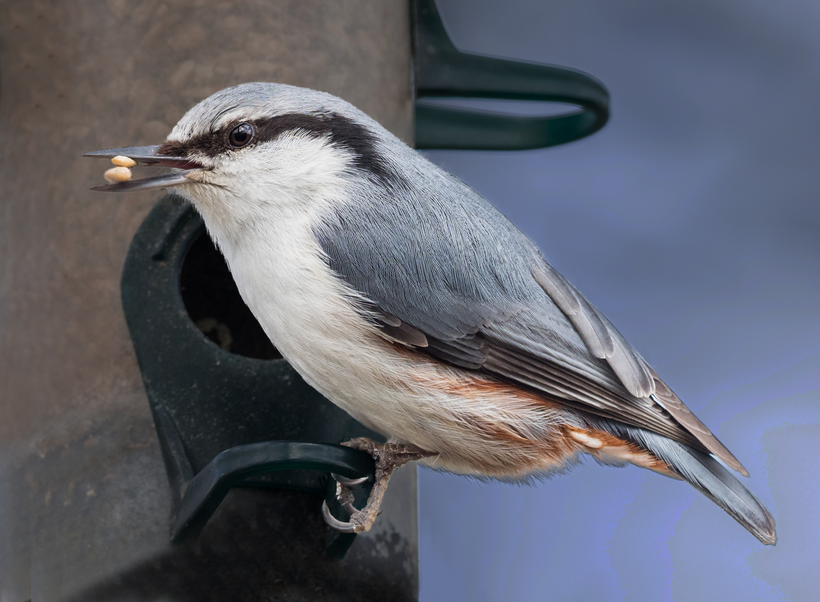 Birds, Vaxholm, Sweden, April 2018